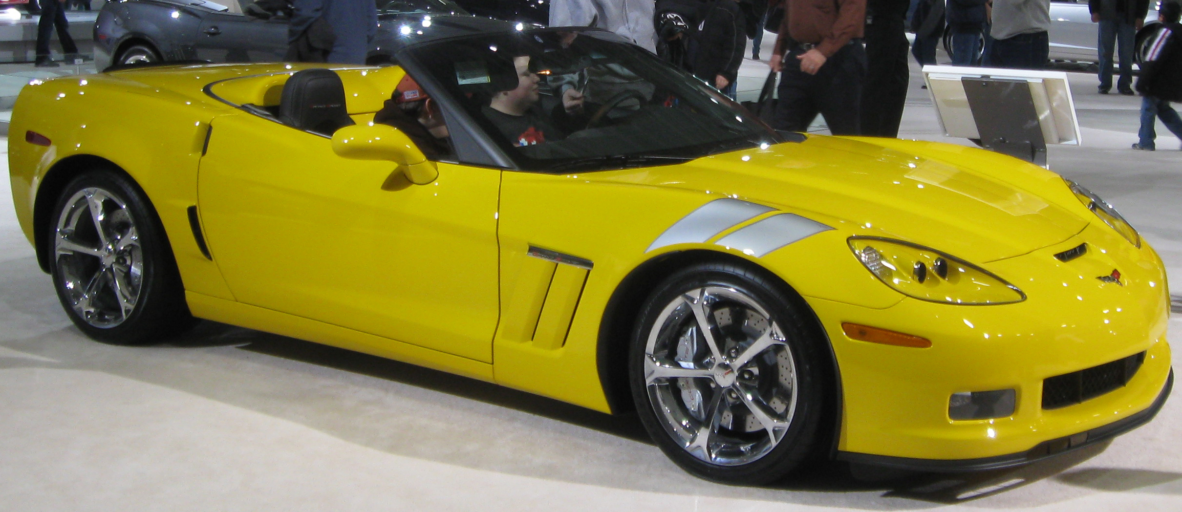 2011 Chevrolet Corvette Grand Sport photographed at the 2011 Washington (D.C.) Auto Show.